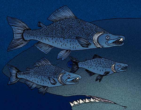 My reconstruction of a trio of the prehistoric salmon Oncorhynchus rastrosus, off the Northwestern coast of Pleistocene North America. (C) Stanton F. Fink